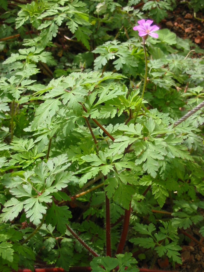 Geranium Robertianum - View of complete plant